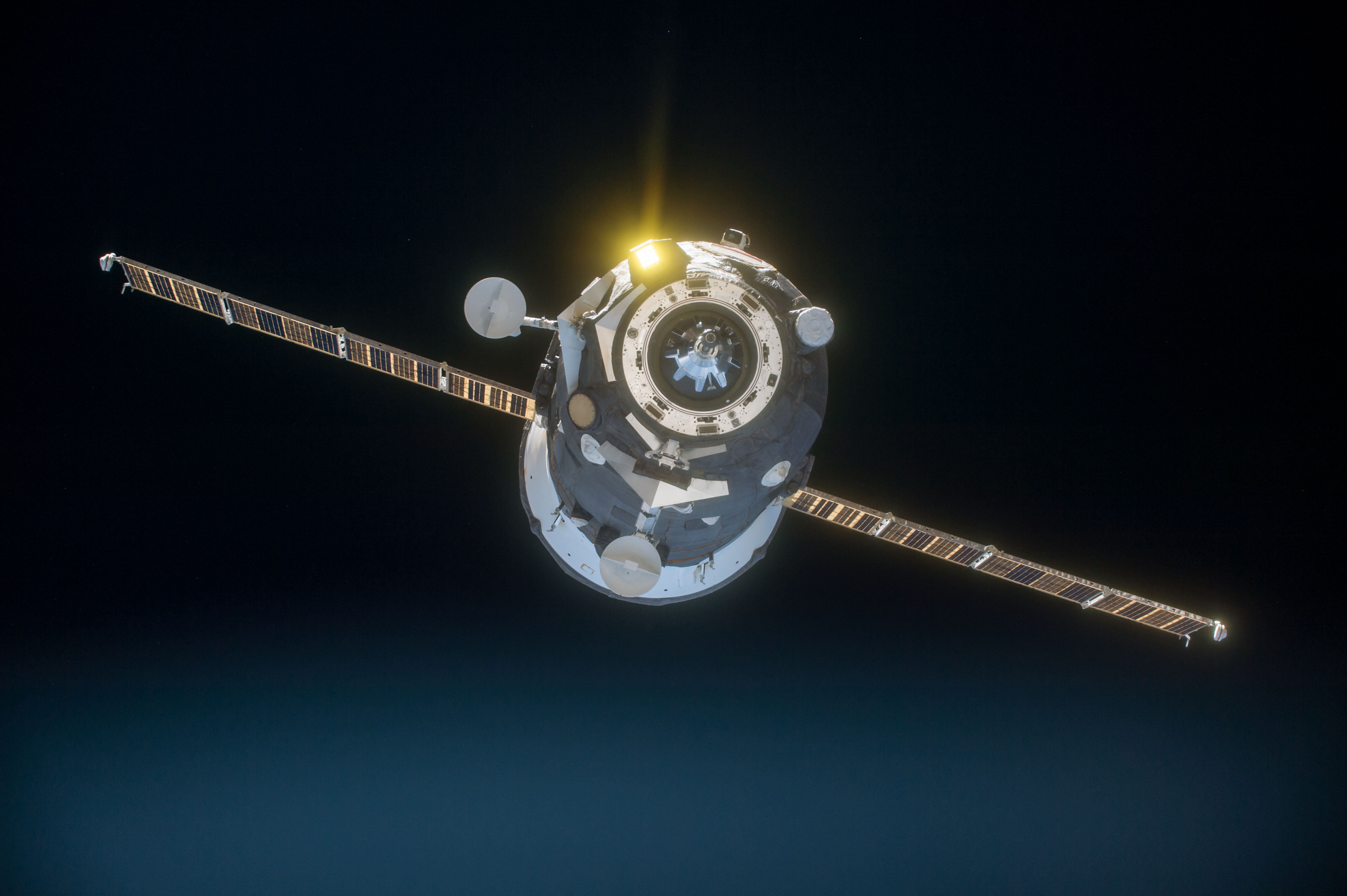 The undocked Russian Progress 62 spacecraft is photographed at a 25 meter hold point in its approach to the International Space Station during a test of the upgraded tele-robotically operated rendezvous system, or the TORU manual docking system.